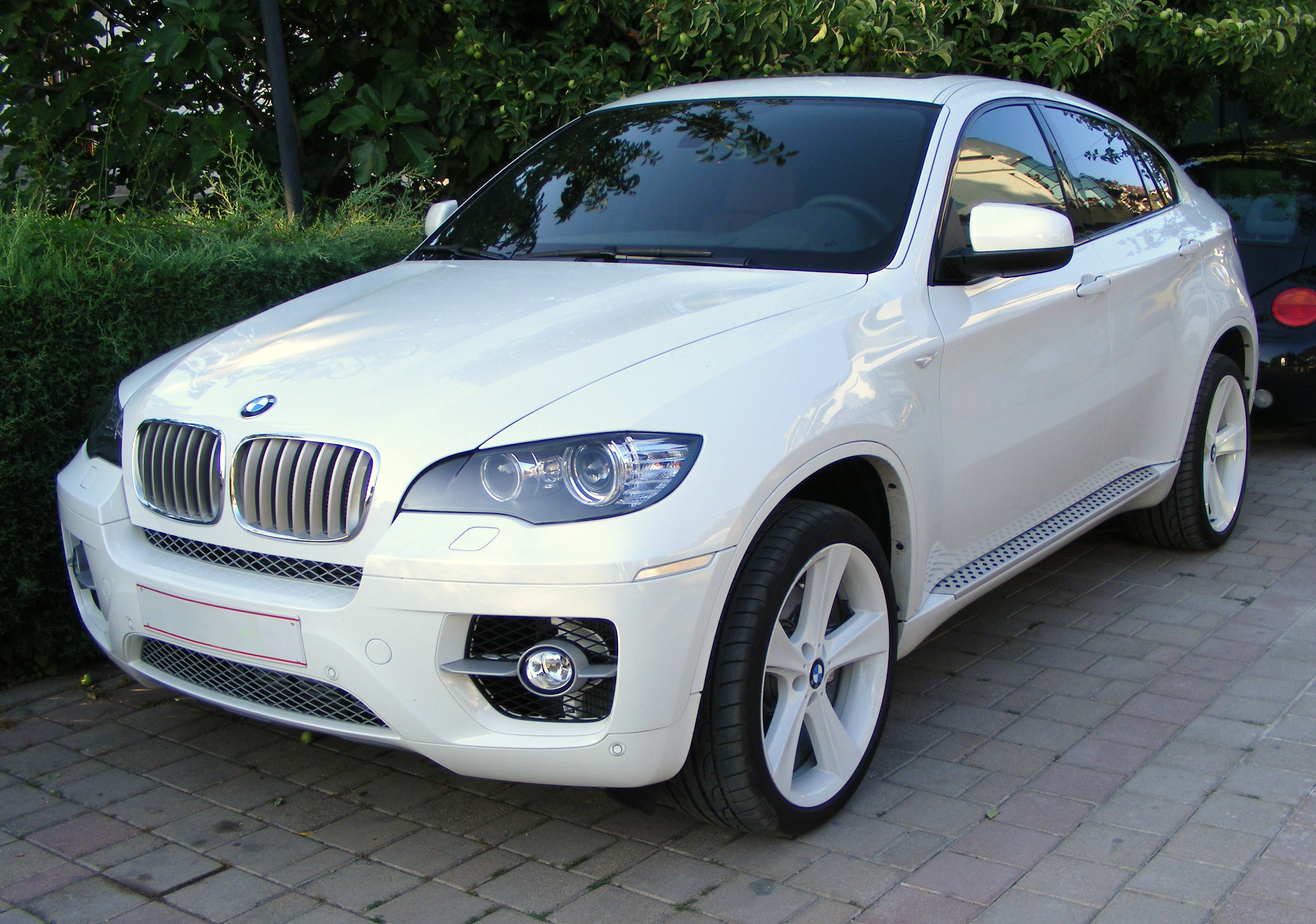 A photo of a white BMW X6 parked in Ohrid, Republic of Macedonia.